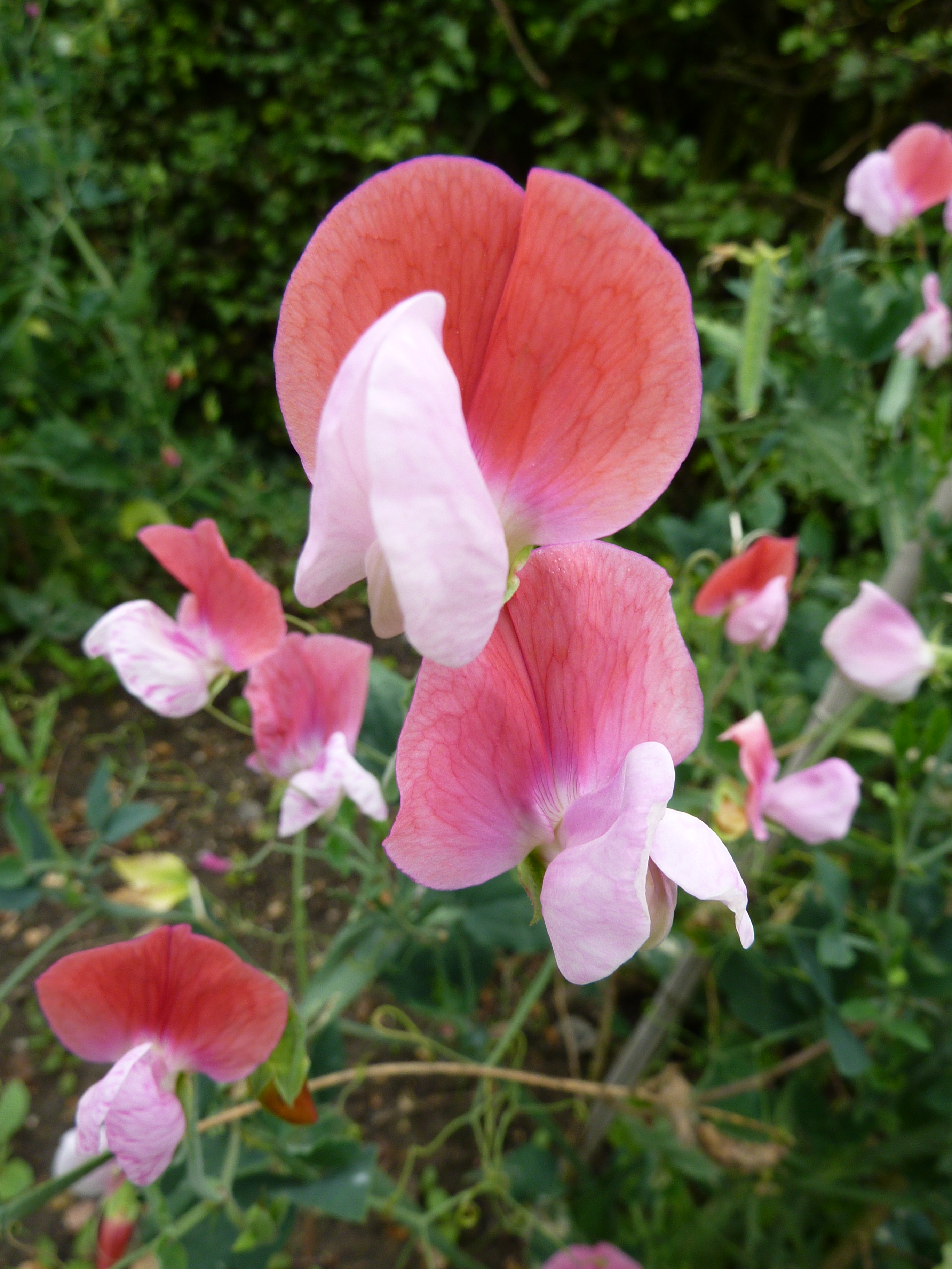 Lathyrus odoratus 'Painted Lady', Cambridge University Botanic Garden